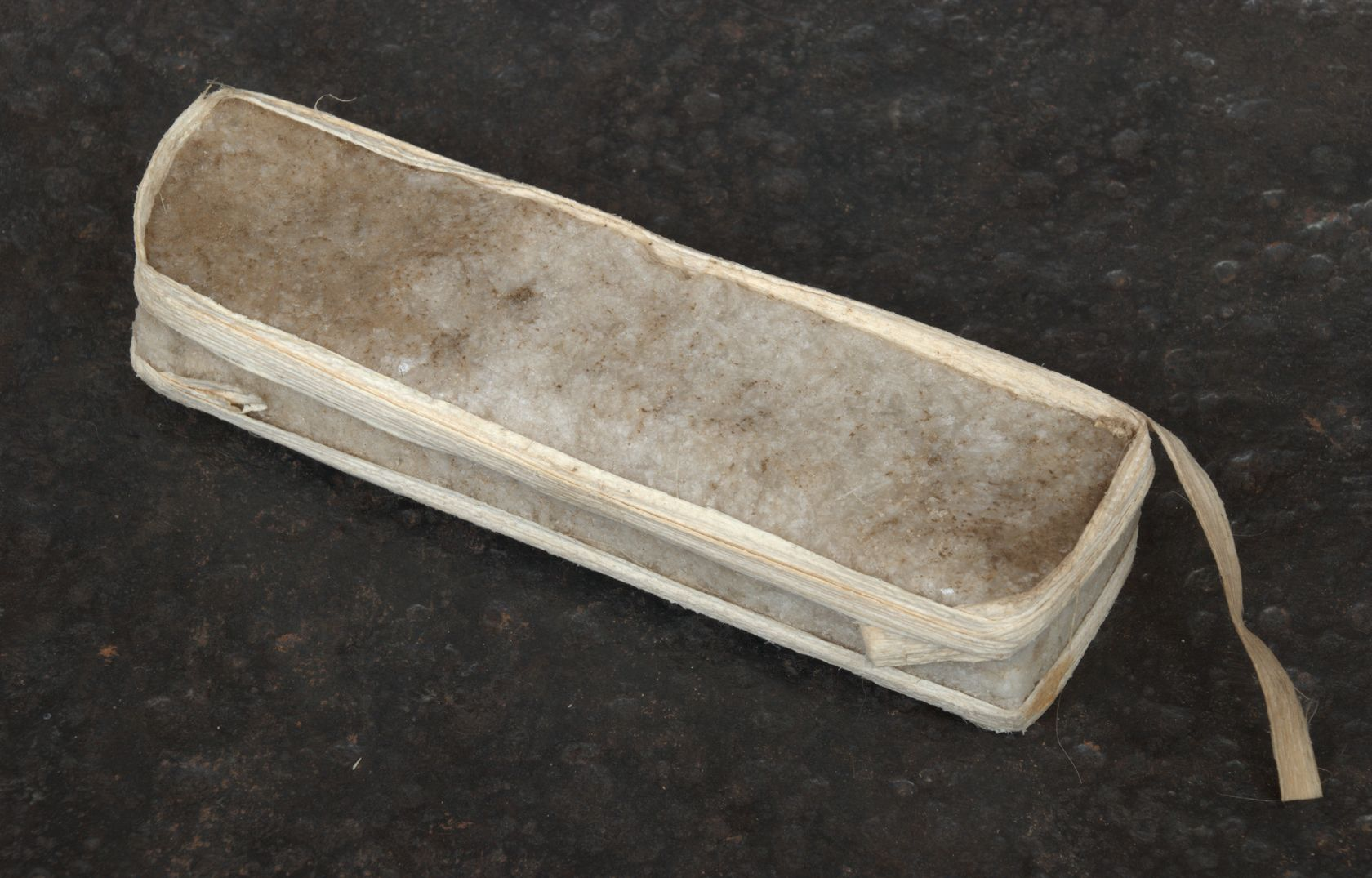 bar of salt, old currency of Ethiopia